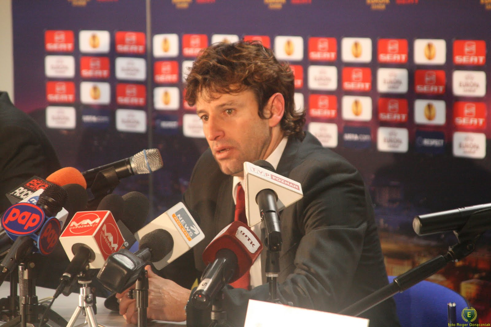 Portugeese football player and coach Domingos Paciência